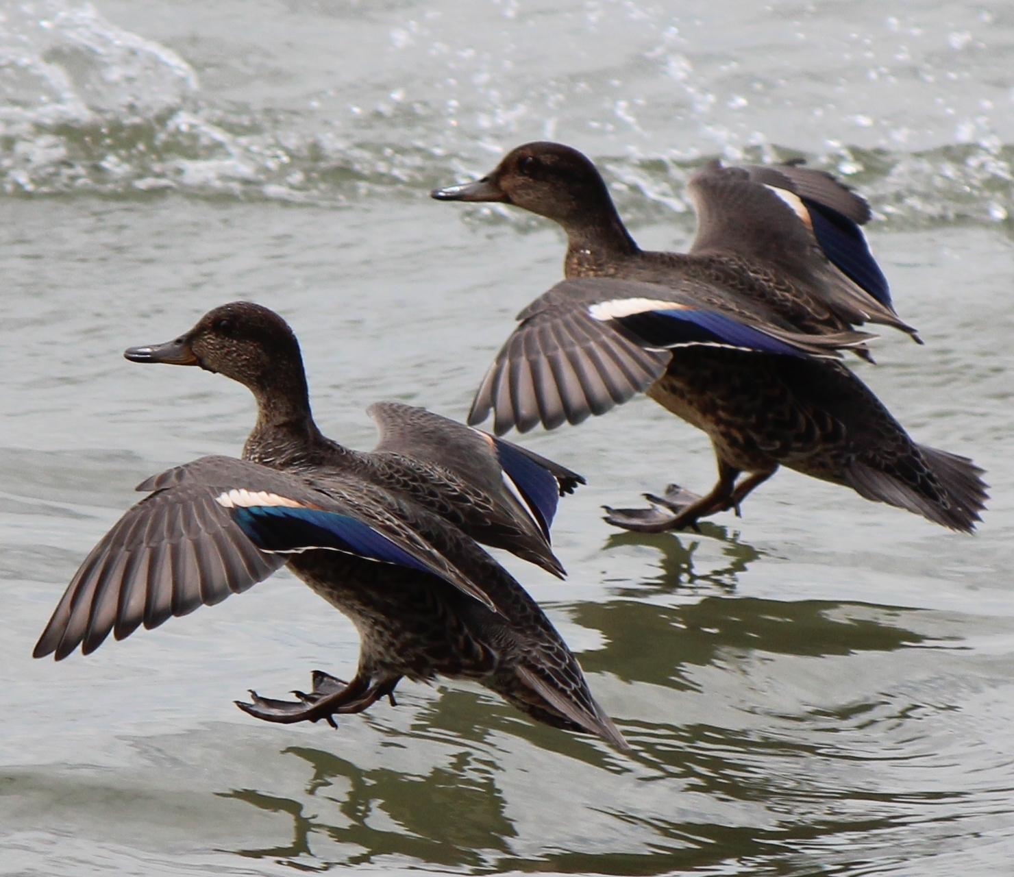 Anas crecca (Eurasian Teal), landing on the water in Japan.